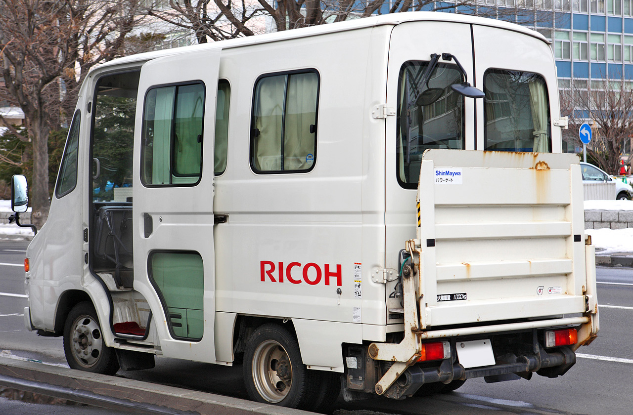 Toyota Urban Supporter with lift.